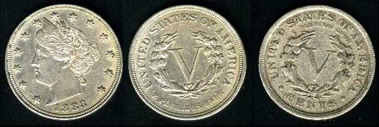 V Nickel